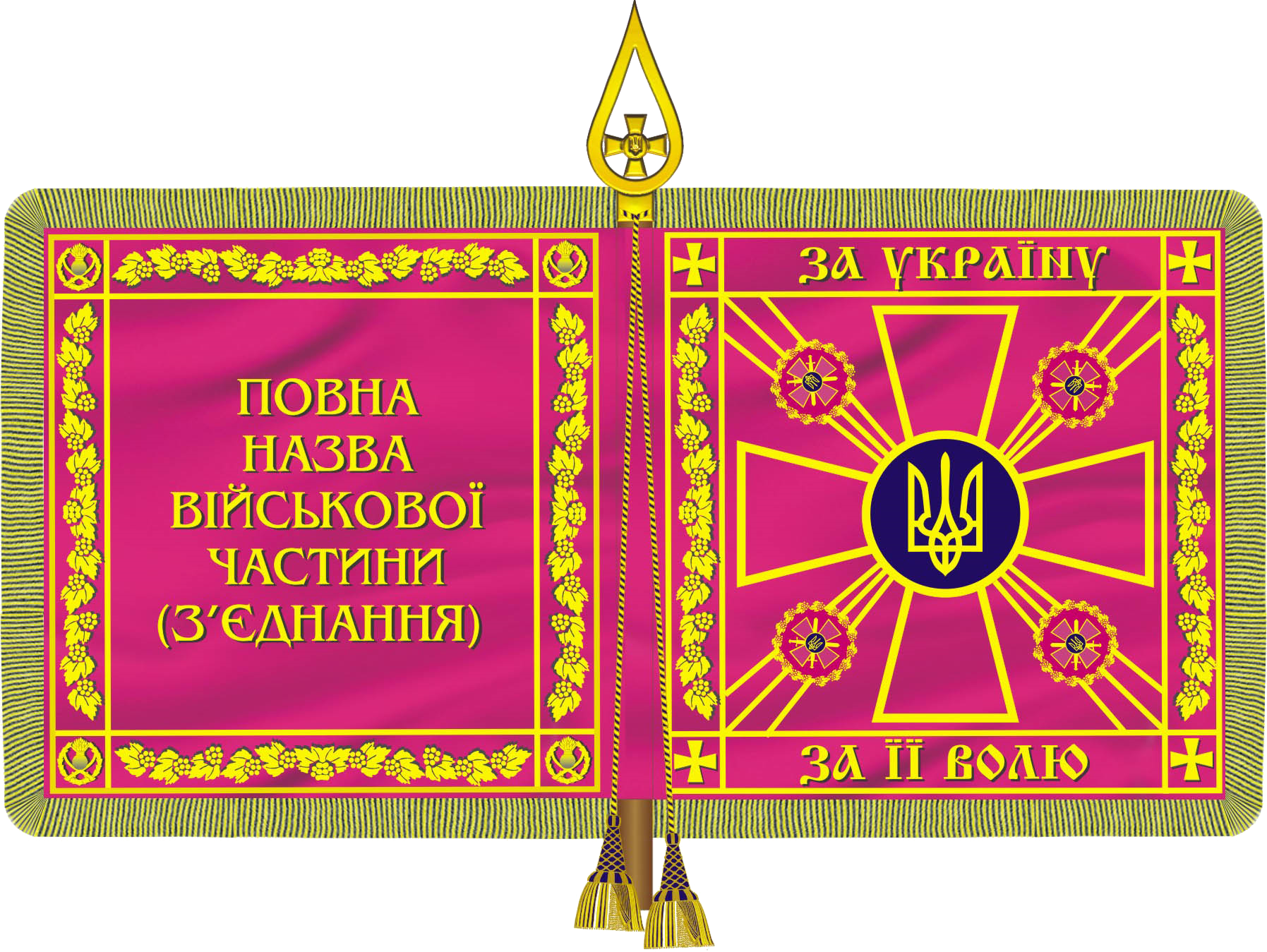 Battle flag of the Ukrainian Ground Forces.